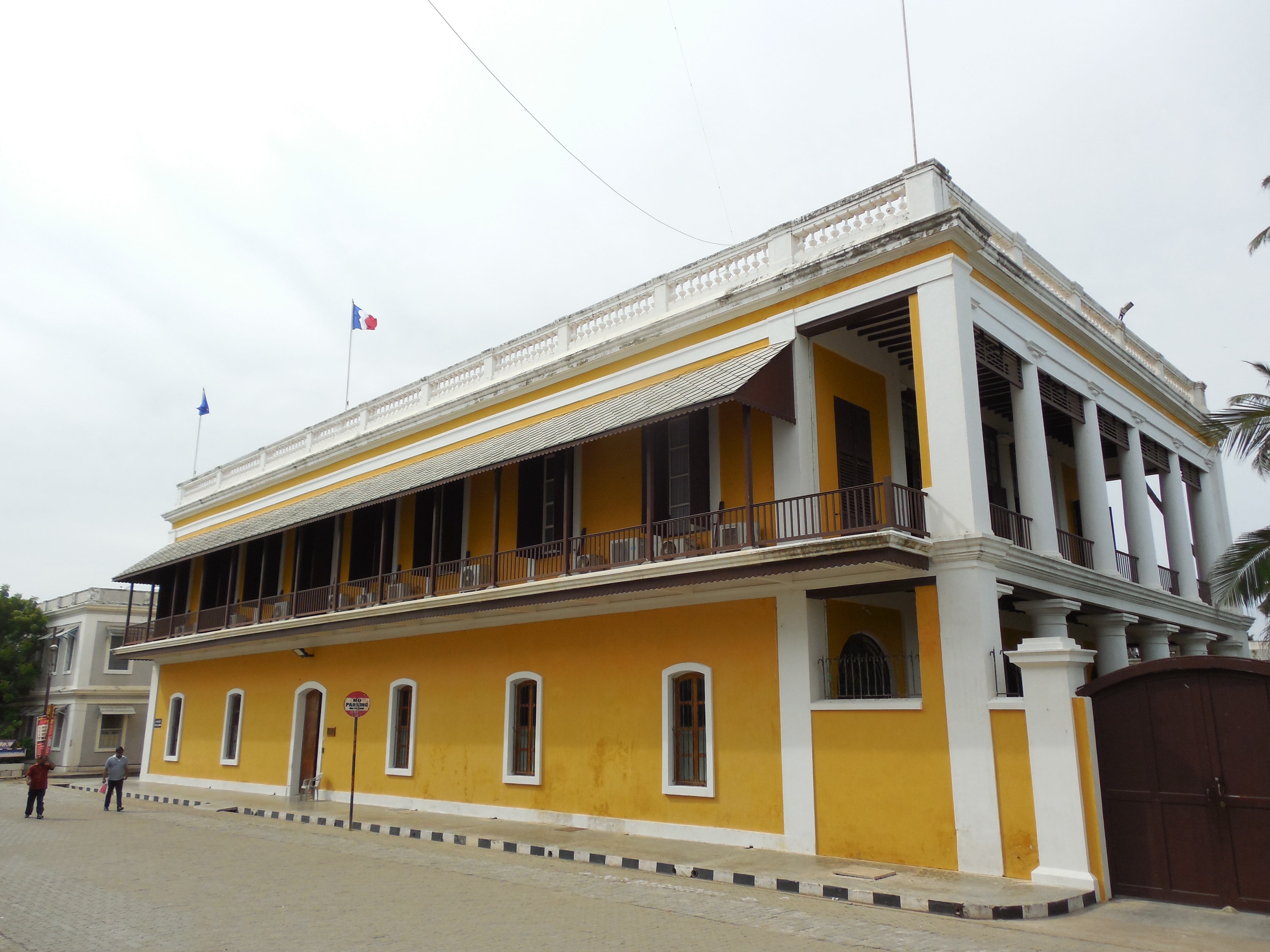 The French Consulate building, Pondicherry, India.